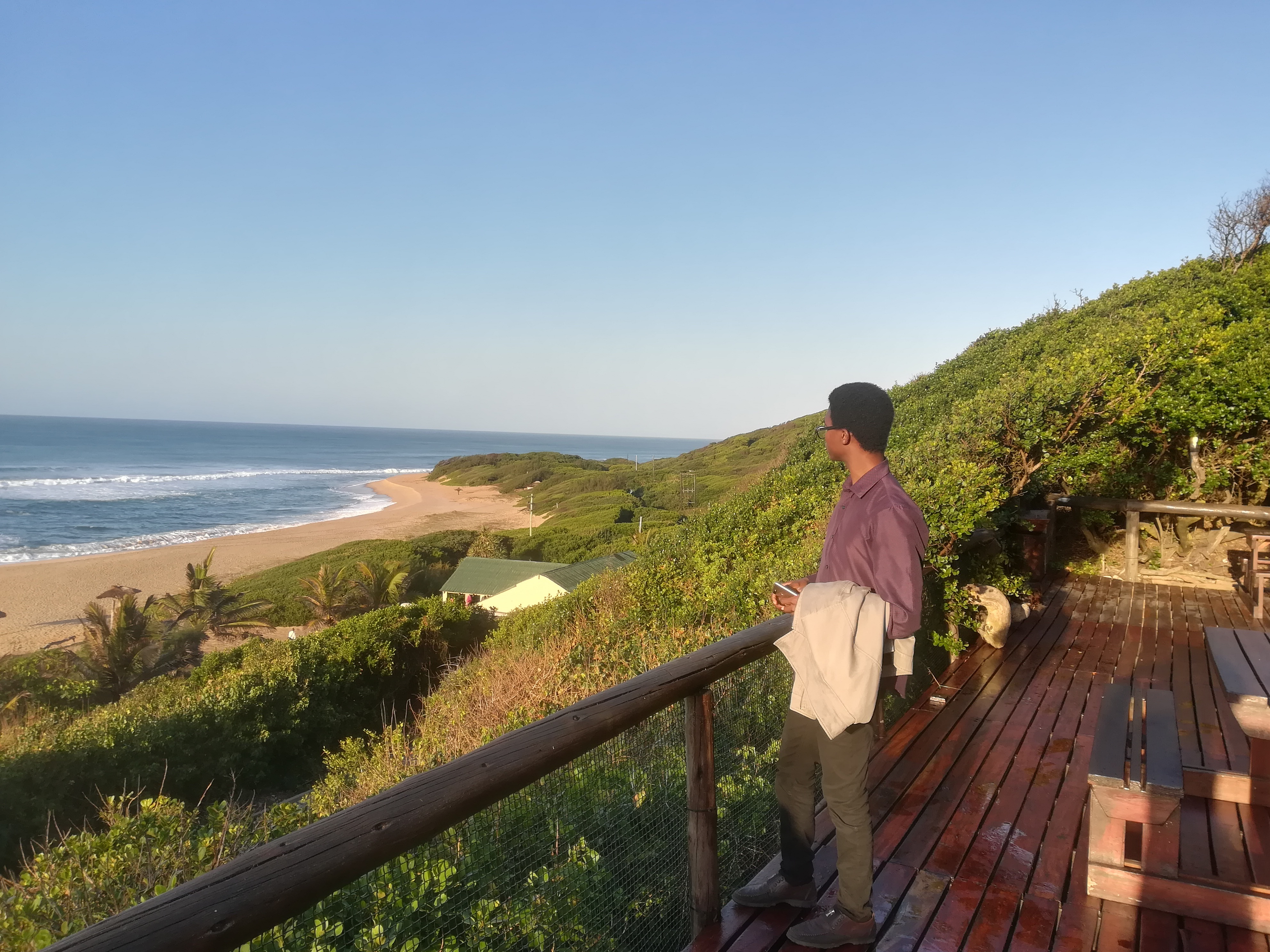 This is an image with the theme "Africa on the Move or Transport" from: Mozambique